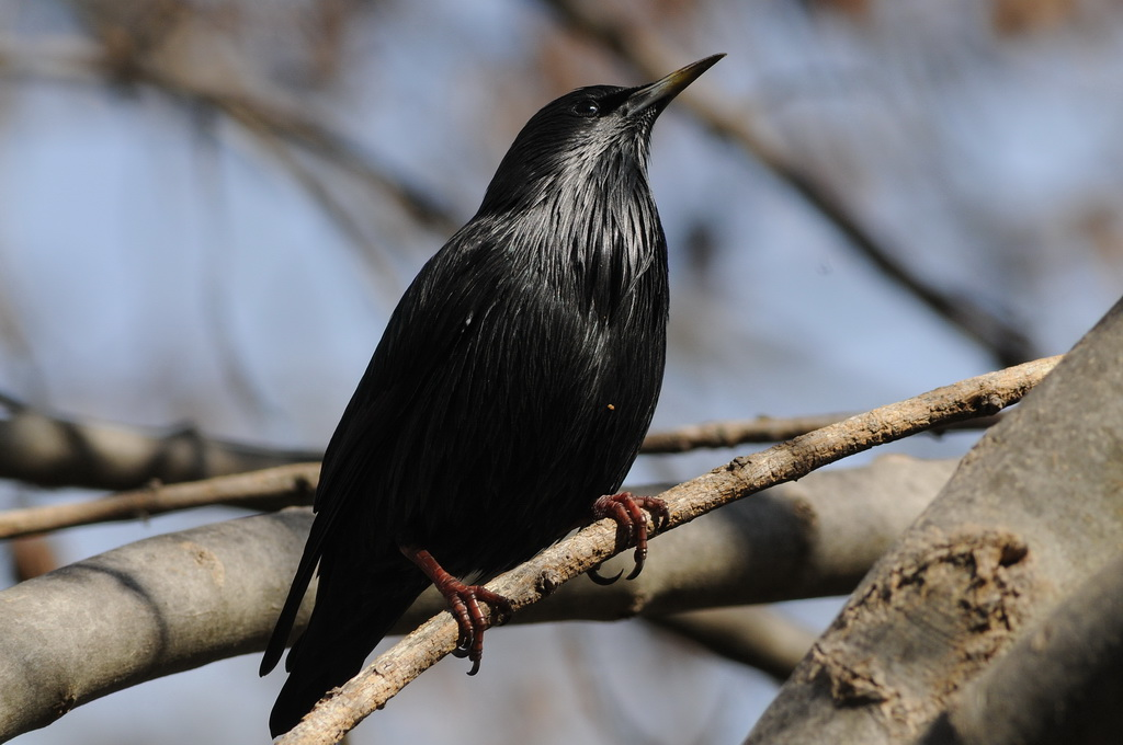 Spotless Starling (Sturnus unicolor) in late autumn at Madrid.